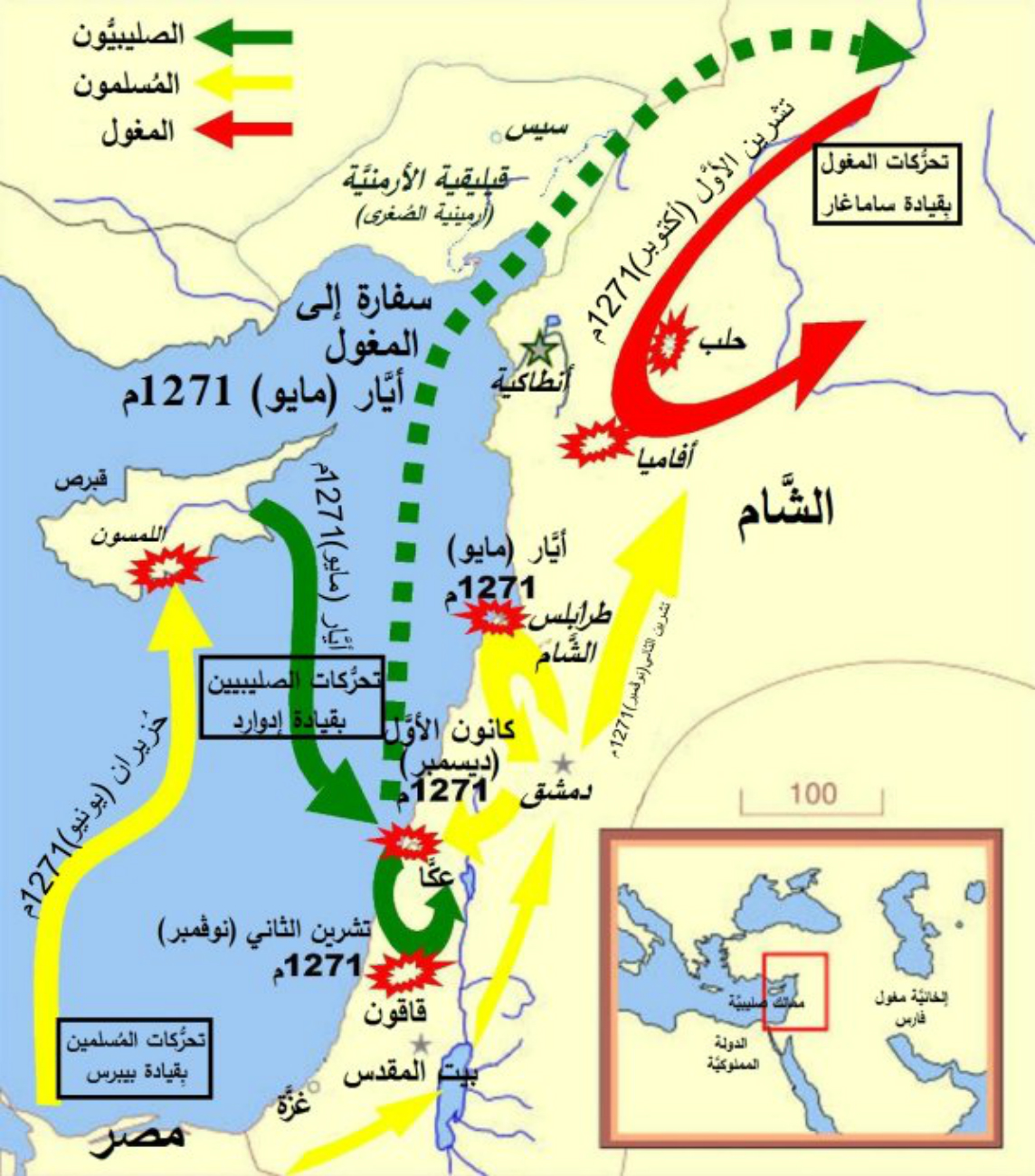 A map of the Ninth Crusade in Masri.